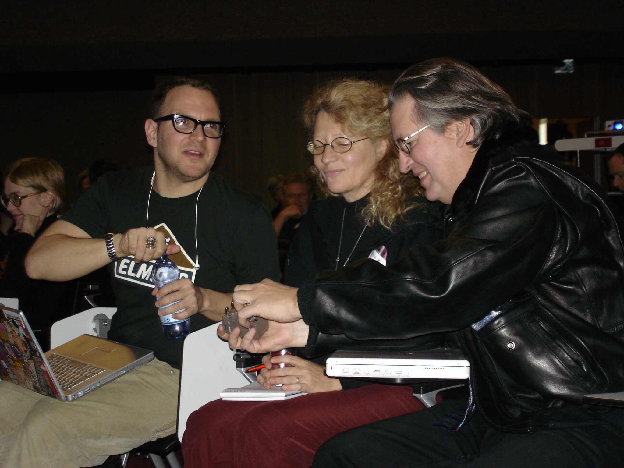 left to right Cory Doctorow, Jasmina Tešanović, Bruce Sterling